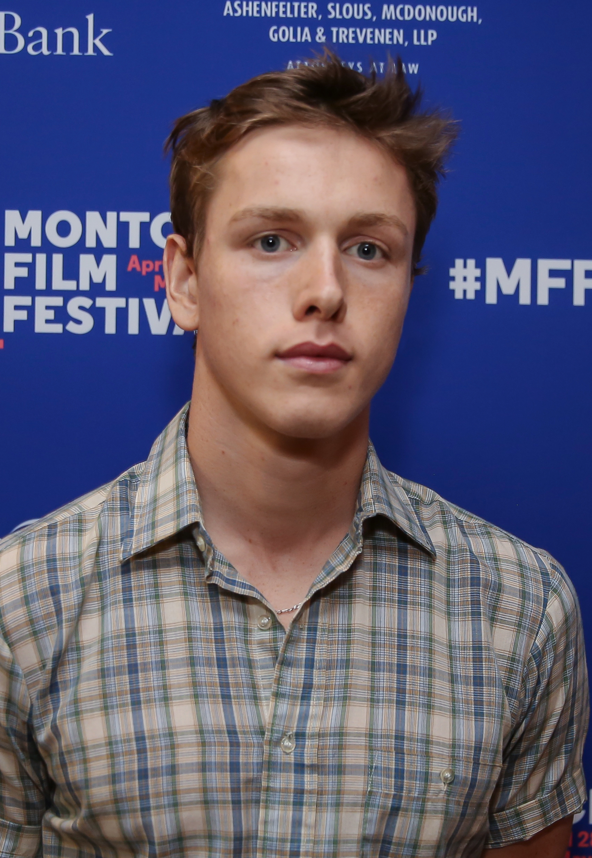 Harris Dickinson photo by "Frank Schramm / Montclair Film"